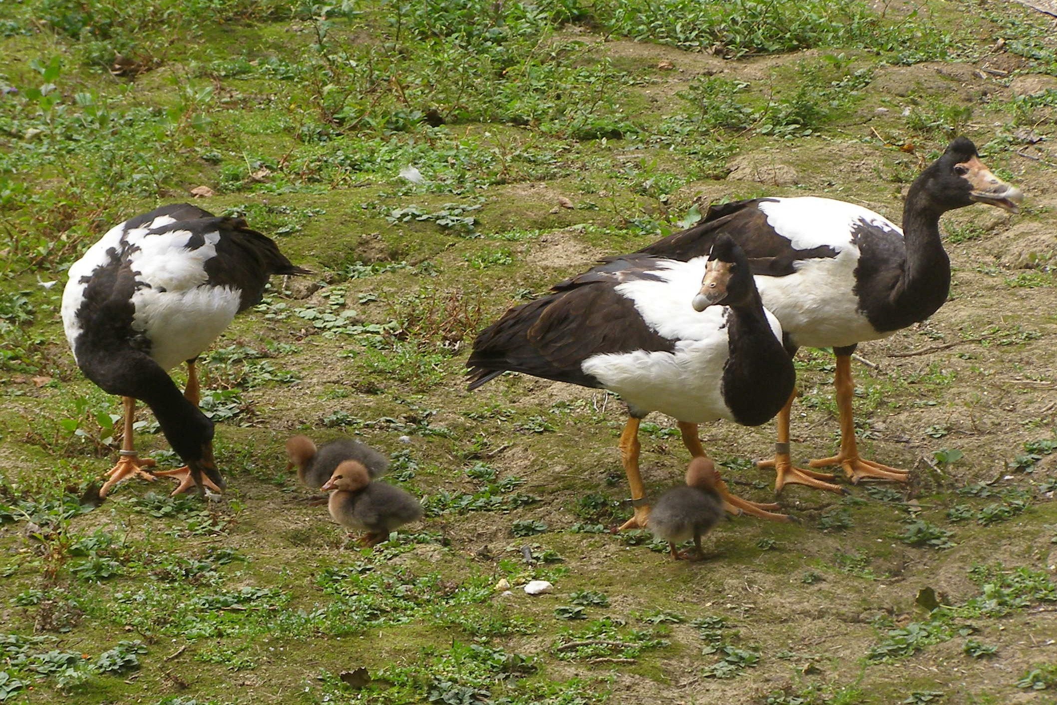 Magpie geese at the Bentley Wildfowl and Motor Museum, Halland, East Sussex, England